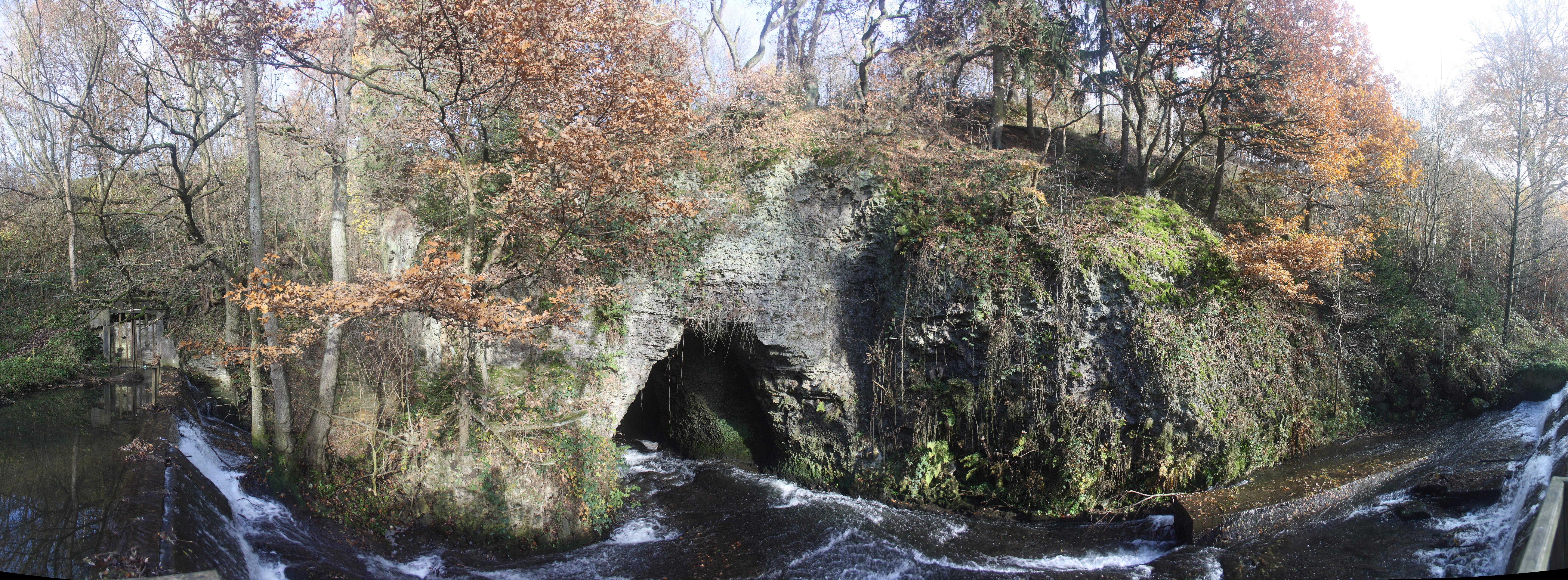 River Geul running through a tunnel at Plombières. This tunnel was built to redirect the river and make room for a lead and zinc mine.